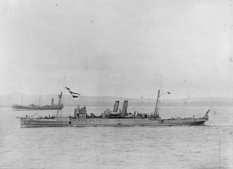 Photograph of British auxiliary minesweeper HMS Gazelle. She was a requisitioned Channel Islands mail and passenger steamer, owned by Great Western Railway.